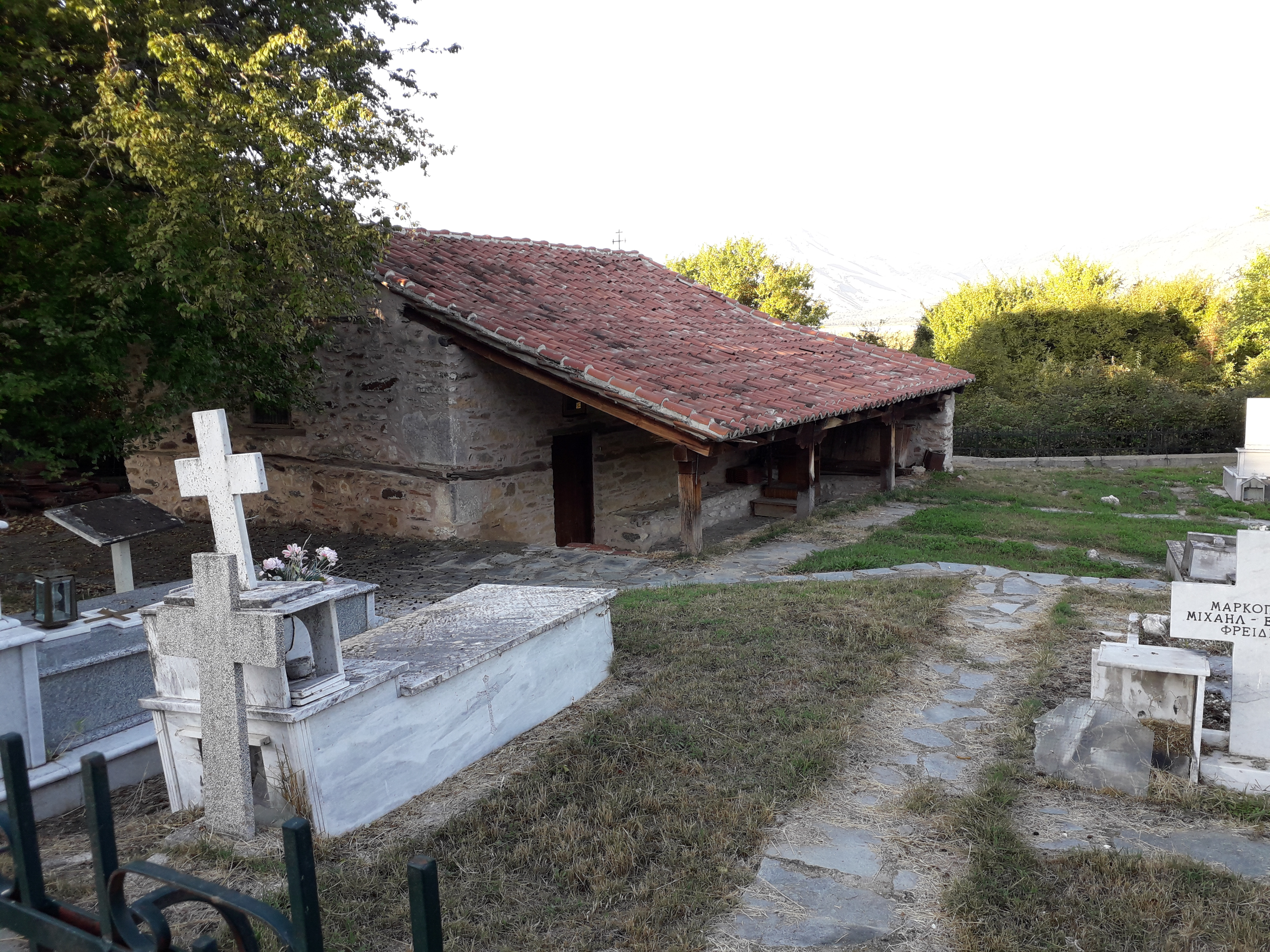 St. Georgi, Ahil